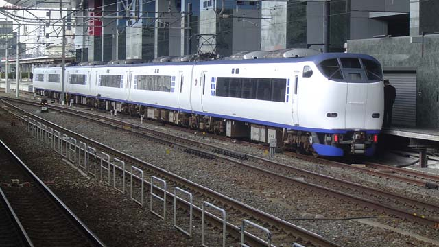 JR West type 281 (Haruka limited express) train.